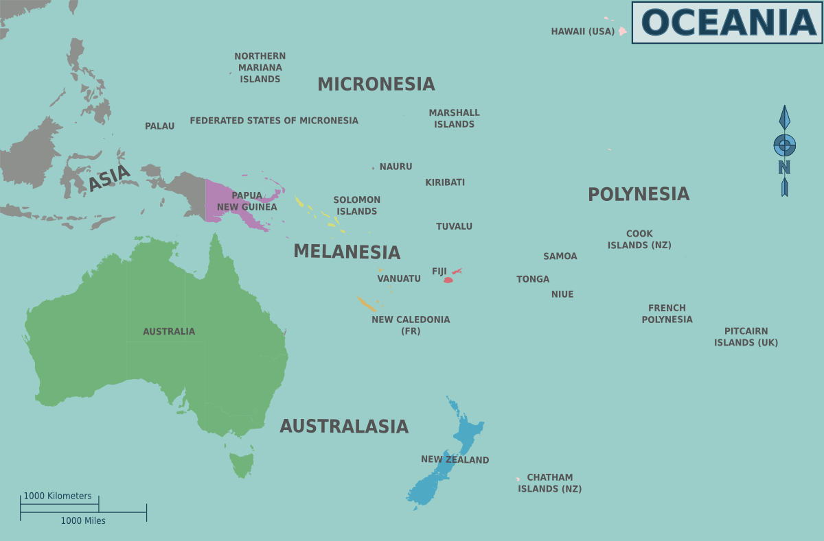 Map of Oceania's regions for use on Wikivoyage, English version This map is obsolete!